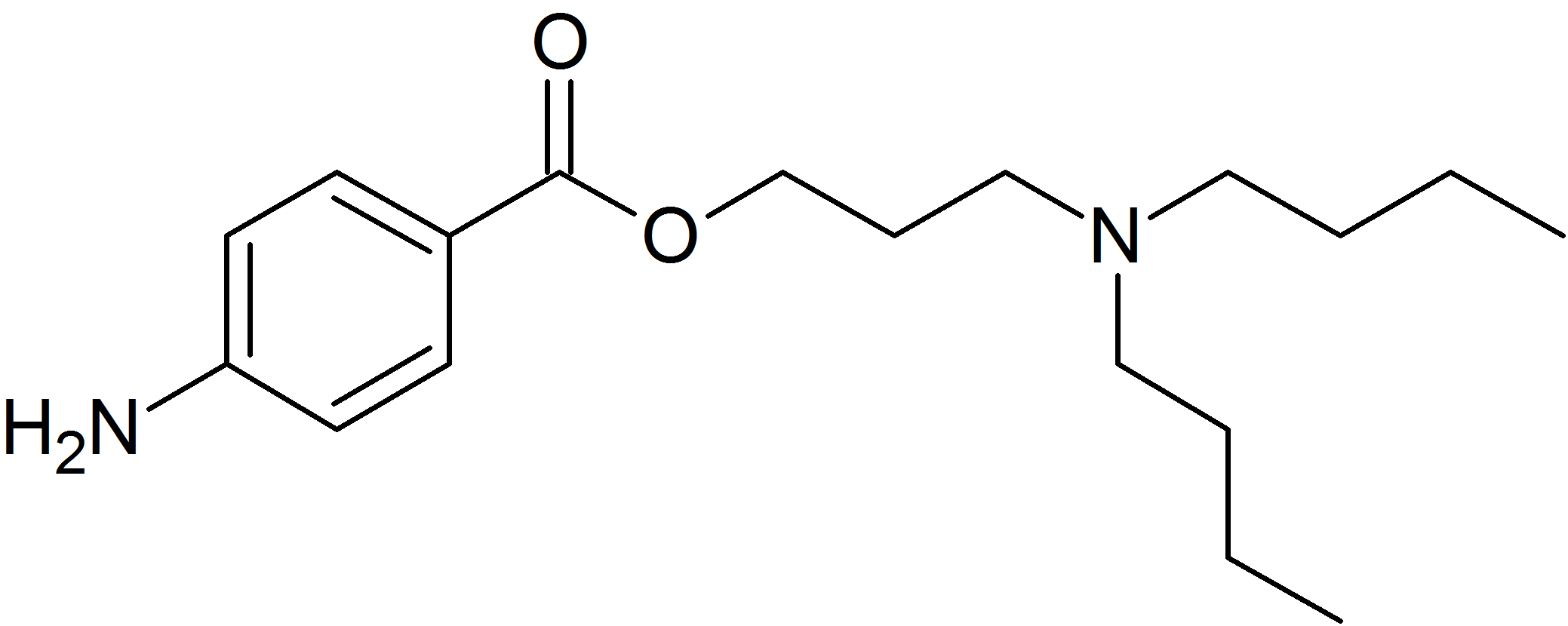 Structure of butacaine